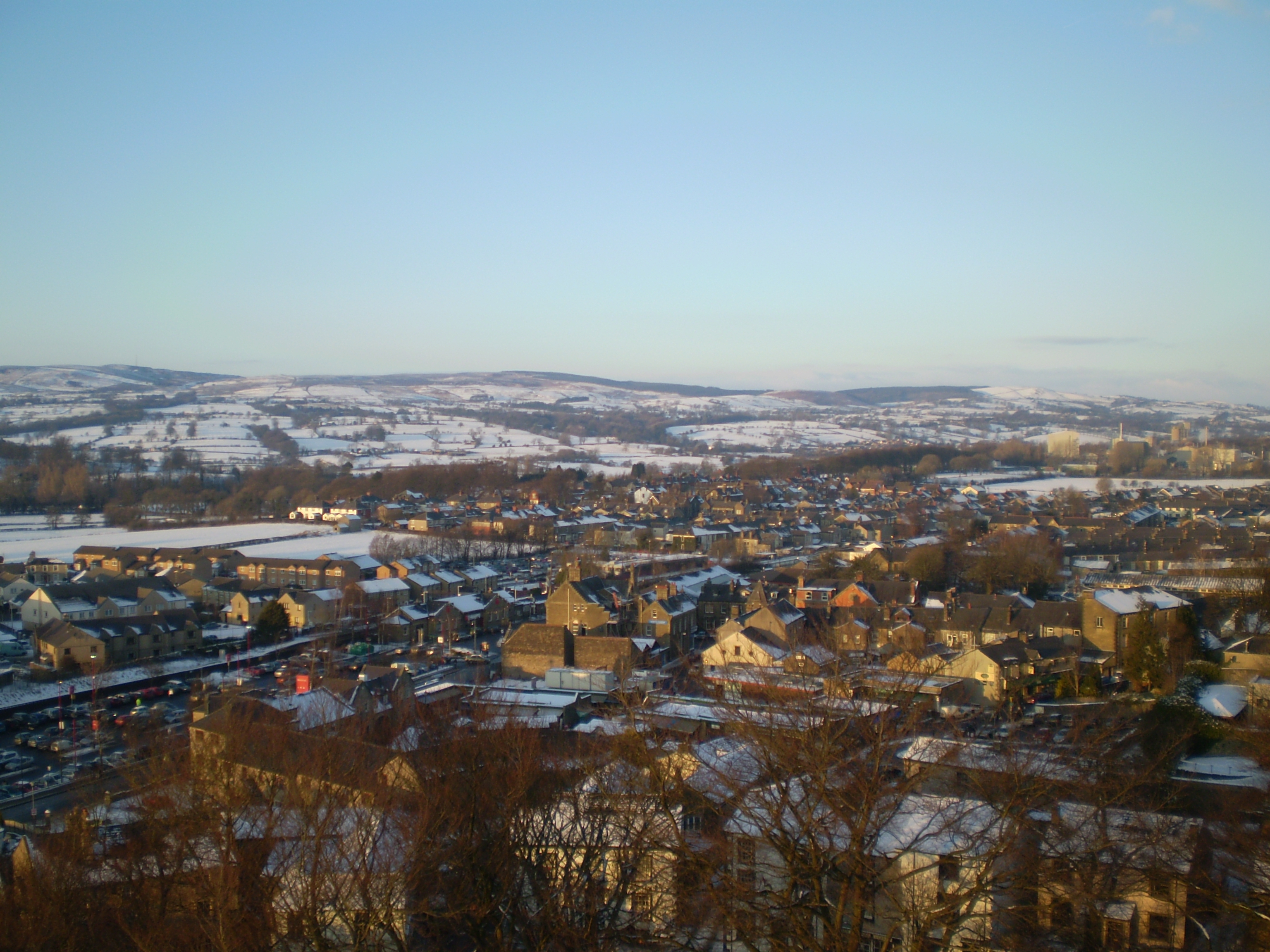 View of Clitheroe and surrounding area